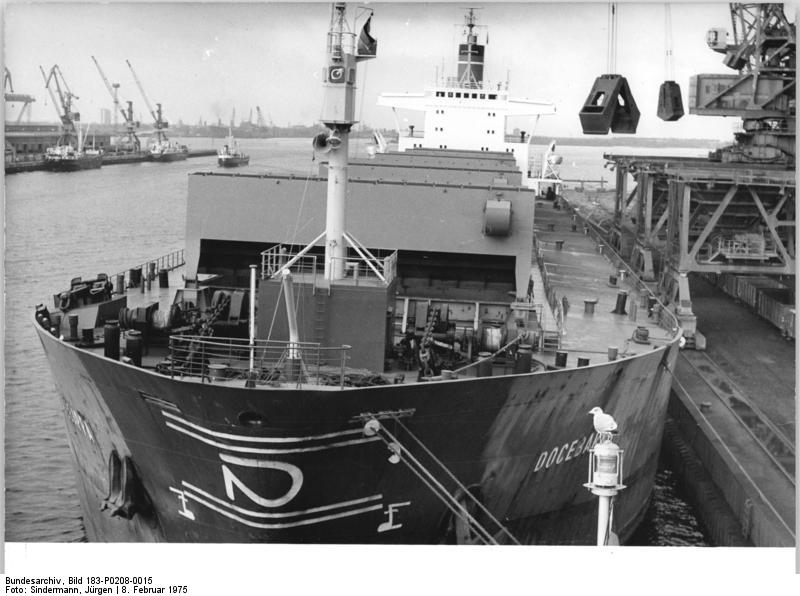 Docebarra, IMO:7328891